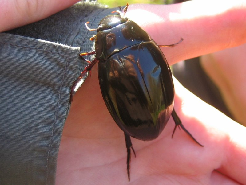 Water scavenger beetle, Hydrophilus piceus